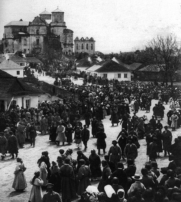 Volodymyr. Crucession to the Cathedral of the Dormition of the Theotokos.